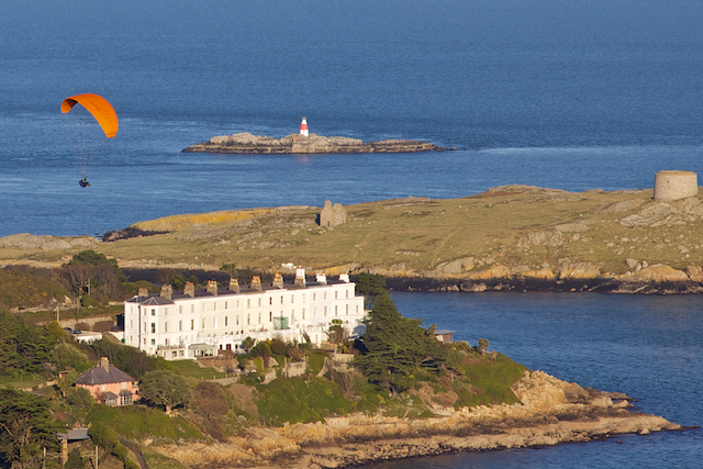 Para Glider at Killiney Hill looking over Dalkey Island